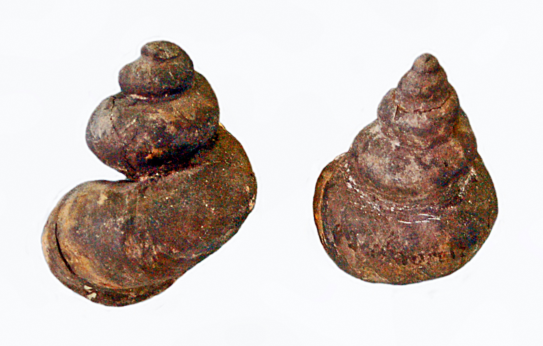 Holopea praestans from Czech Republic, at the National Museum (Prague)